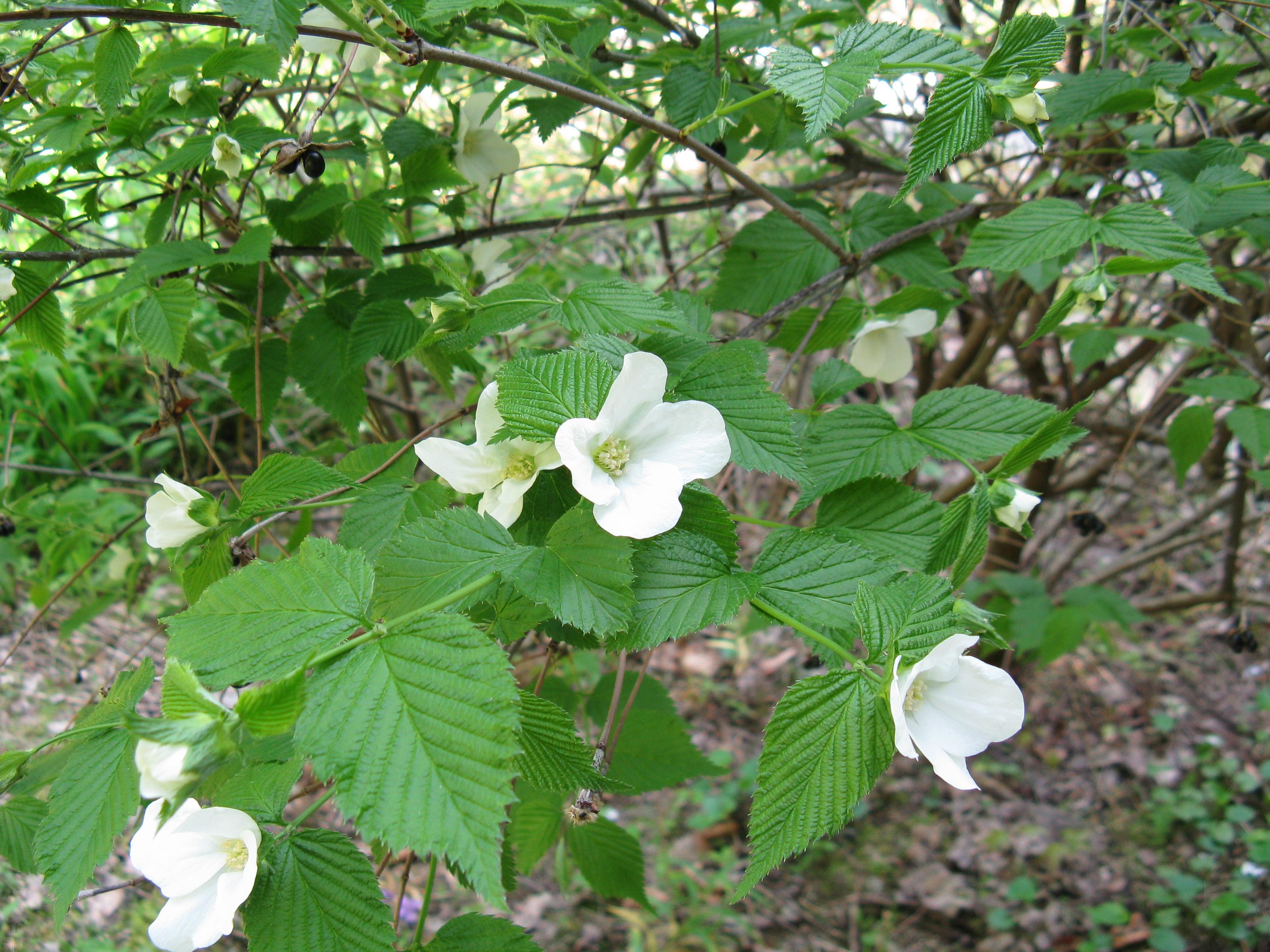 Scientific name Rhodotypos scandens